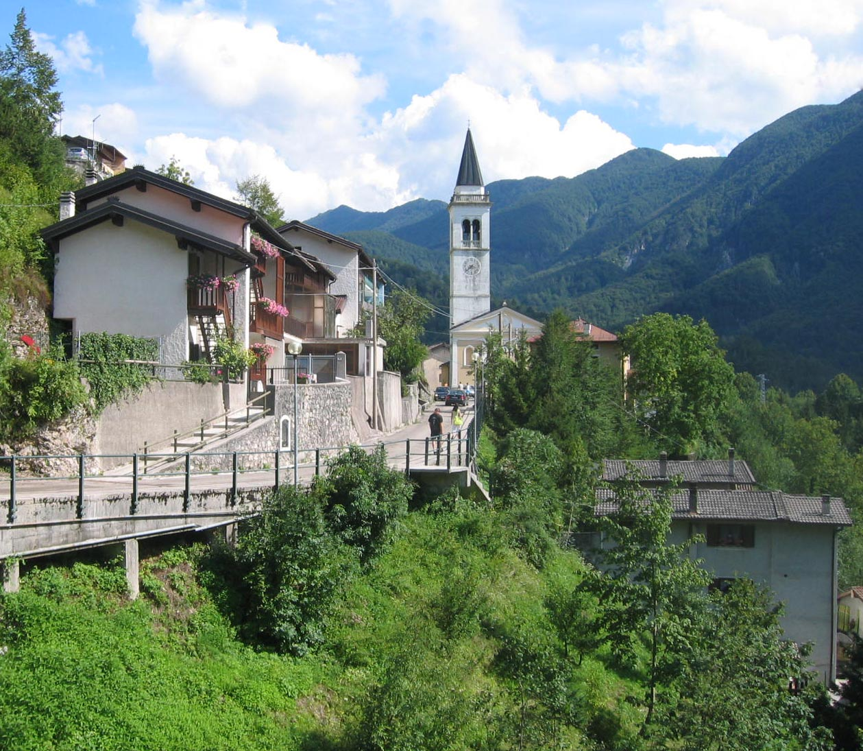 Val Resia (resiano: Resija)-(slovene: Rezija), alpine valley in northeast Italy photo:Ziga 08:22, 9 February 2007 (UTC)